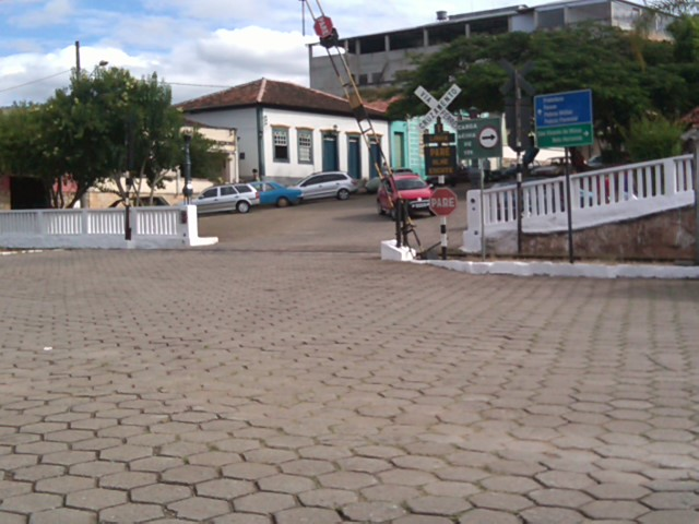 Andrelândia Center, Minas Gerais, Brazil.